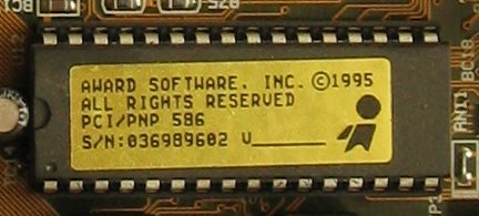 Flash RAM with Award BIOS